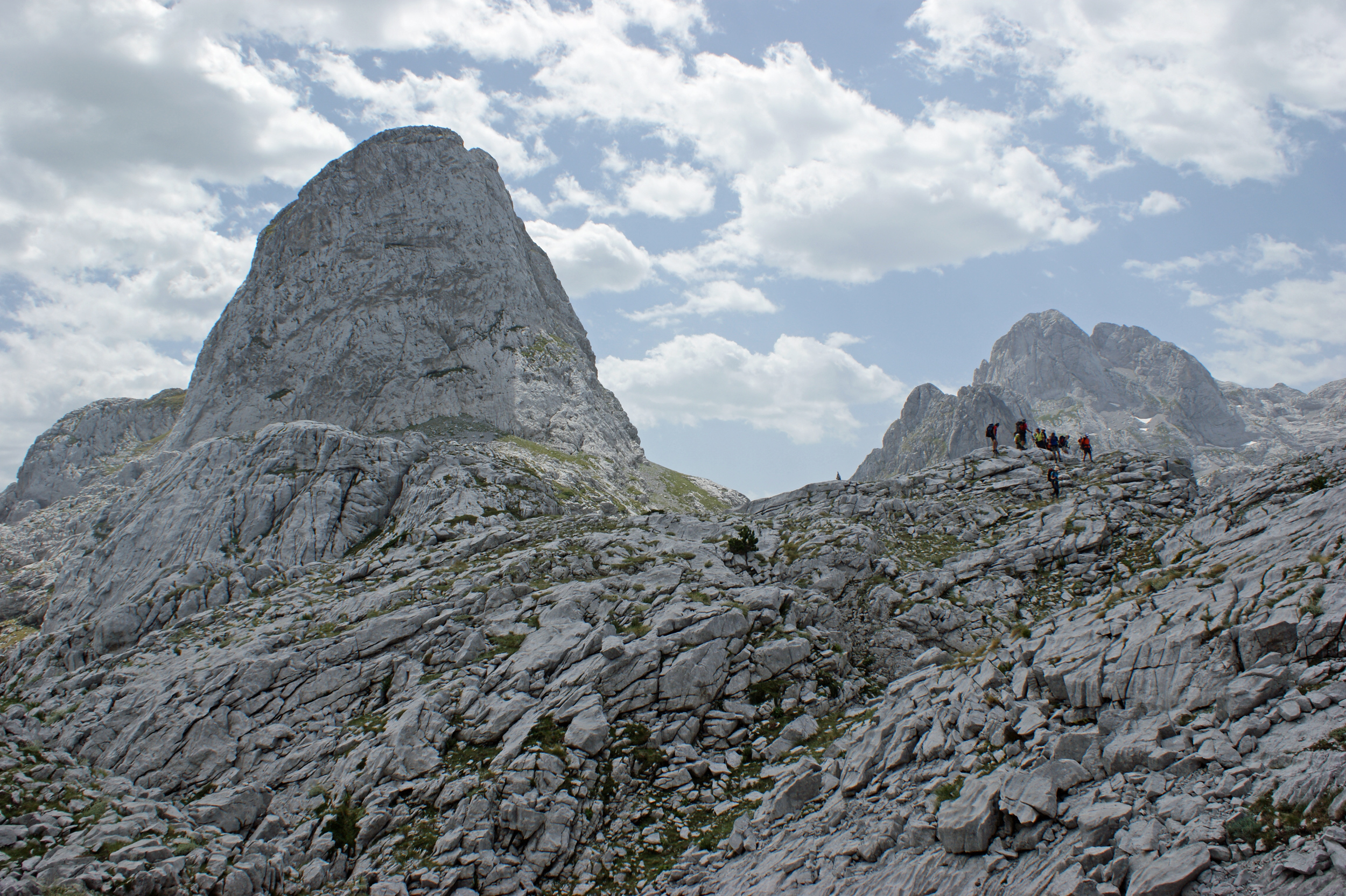 Arapi Mountain: North side of the mountain and some trekkers in the Albanian Alps